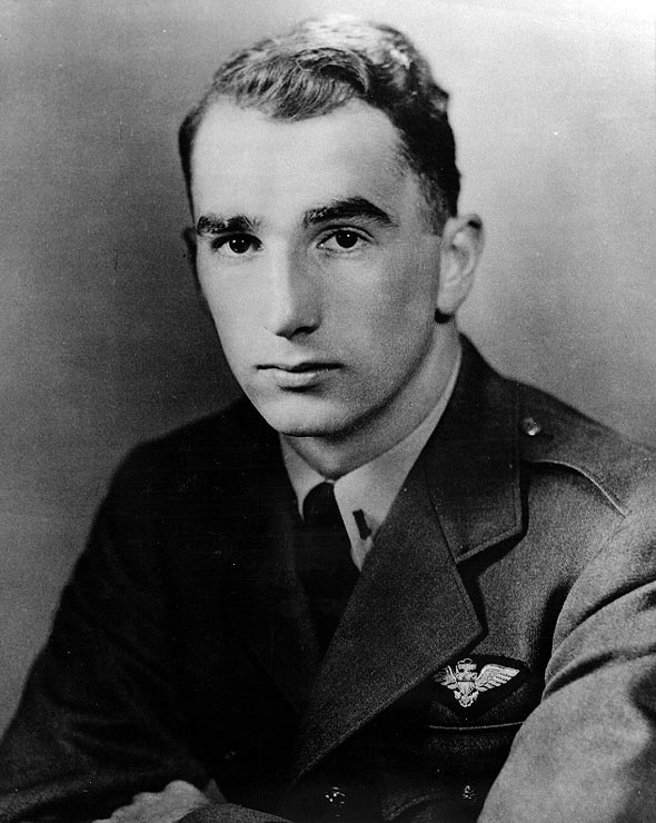 Lieutenant (Junior Grade) John Kelvin Koelsch, USN, portrait photograph, taken circa 1950. LtJG Koelsch was awarded the Medal of Honor, posthumously, for heroism as a rescue helicopter pilot and as a prisoner of war in 1951, during the Korean War.